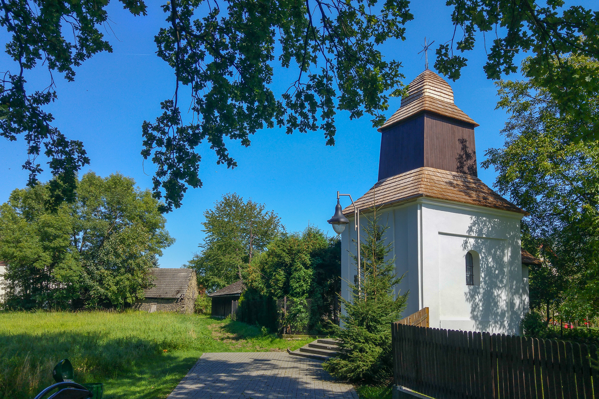 Porąbka, Bielsko district, Saint Urban Chapel (1827)